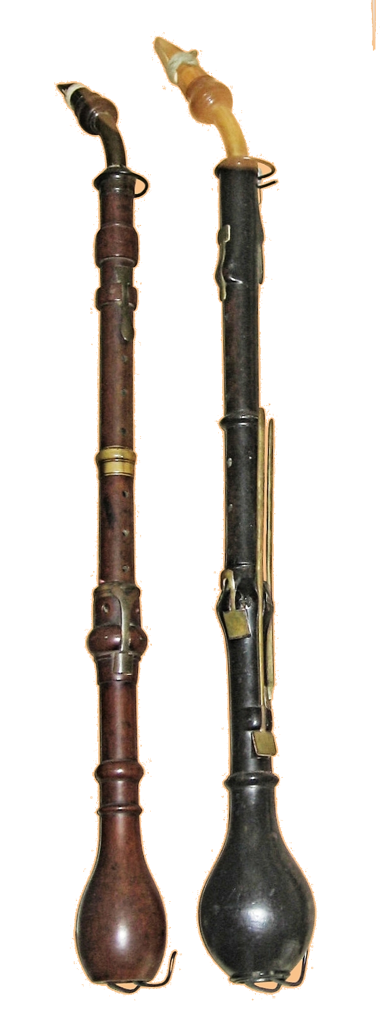 Left: Clarinette d'amour, 4 key, marked I. S. W., either J. S. Waich or I. S. W. Tritthern, Germany, early 18th century. Edgar Hunt accession. Right: Clarinette d'amour. Venera, Turin, probably second half 18th century, maple. Photographed at the Bate Collection at the University of Oxford.